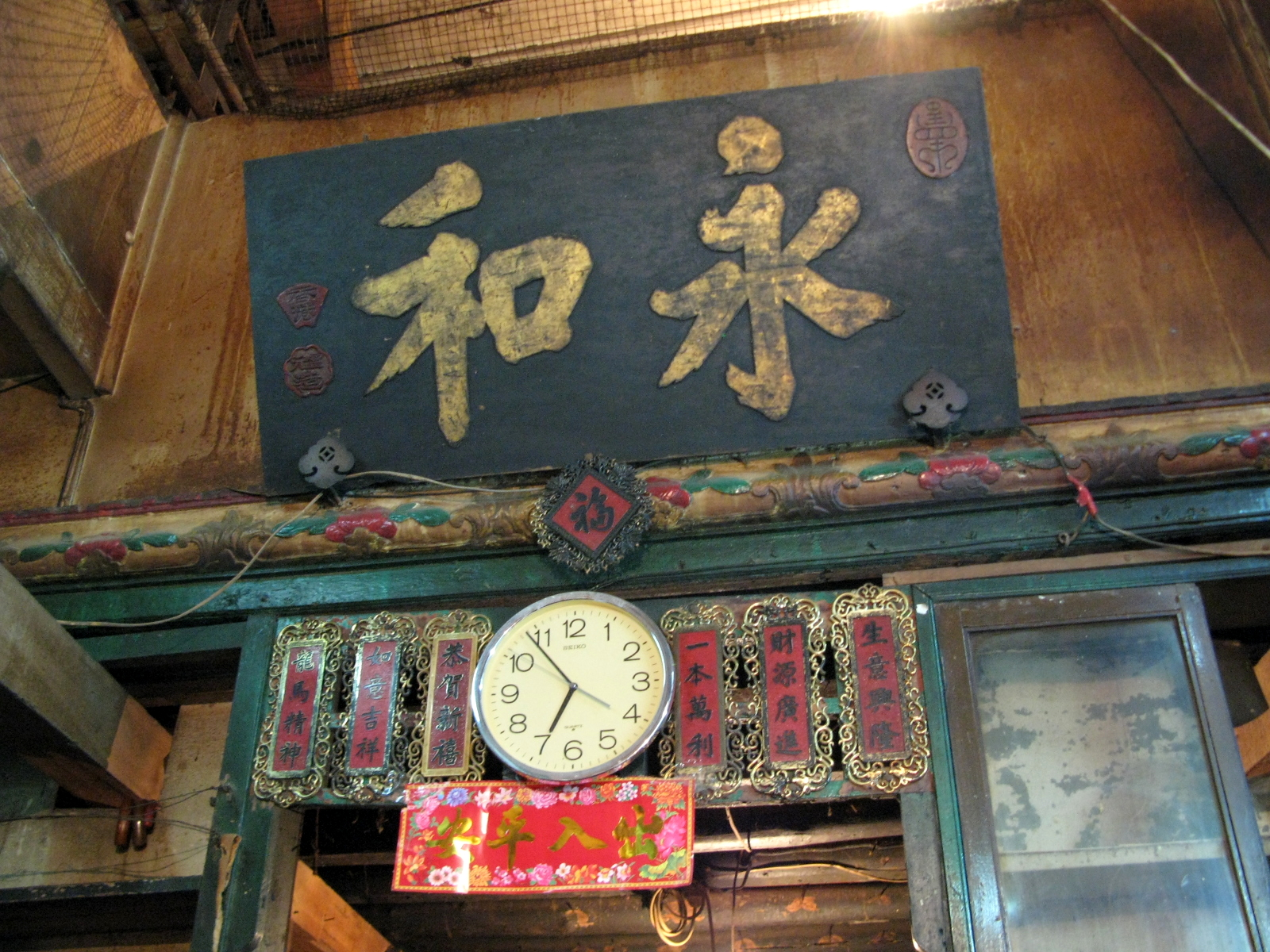 Wing Wo Ho Ident 永和號